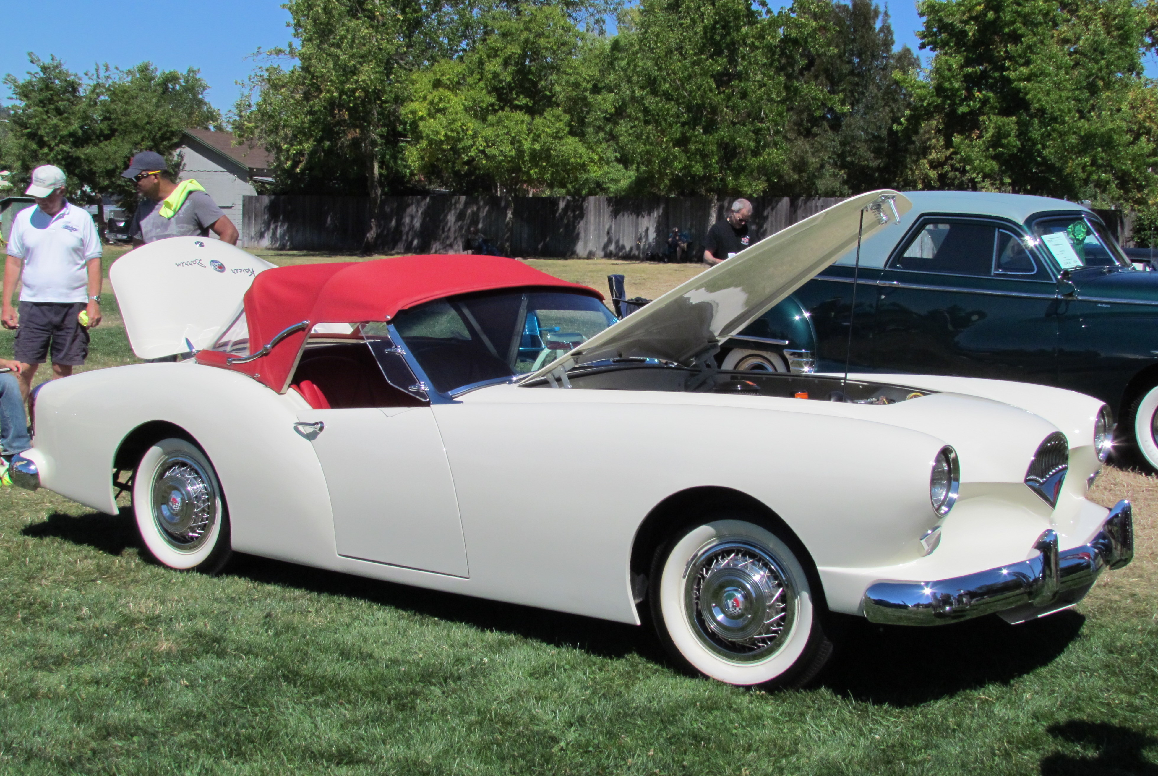 1954 Kaiser Darrin sports car